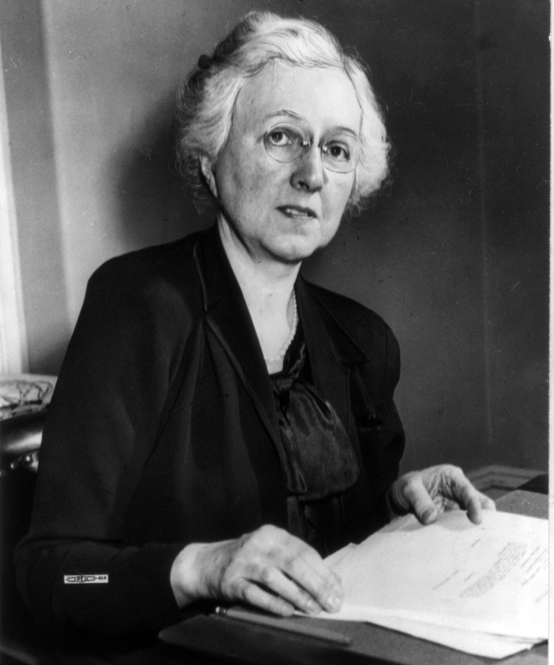 Chase G. Woodhouse, US Representative from Connecticut